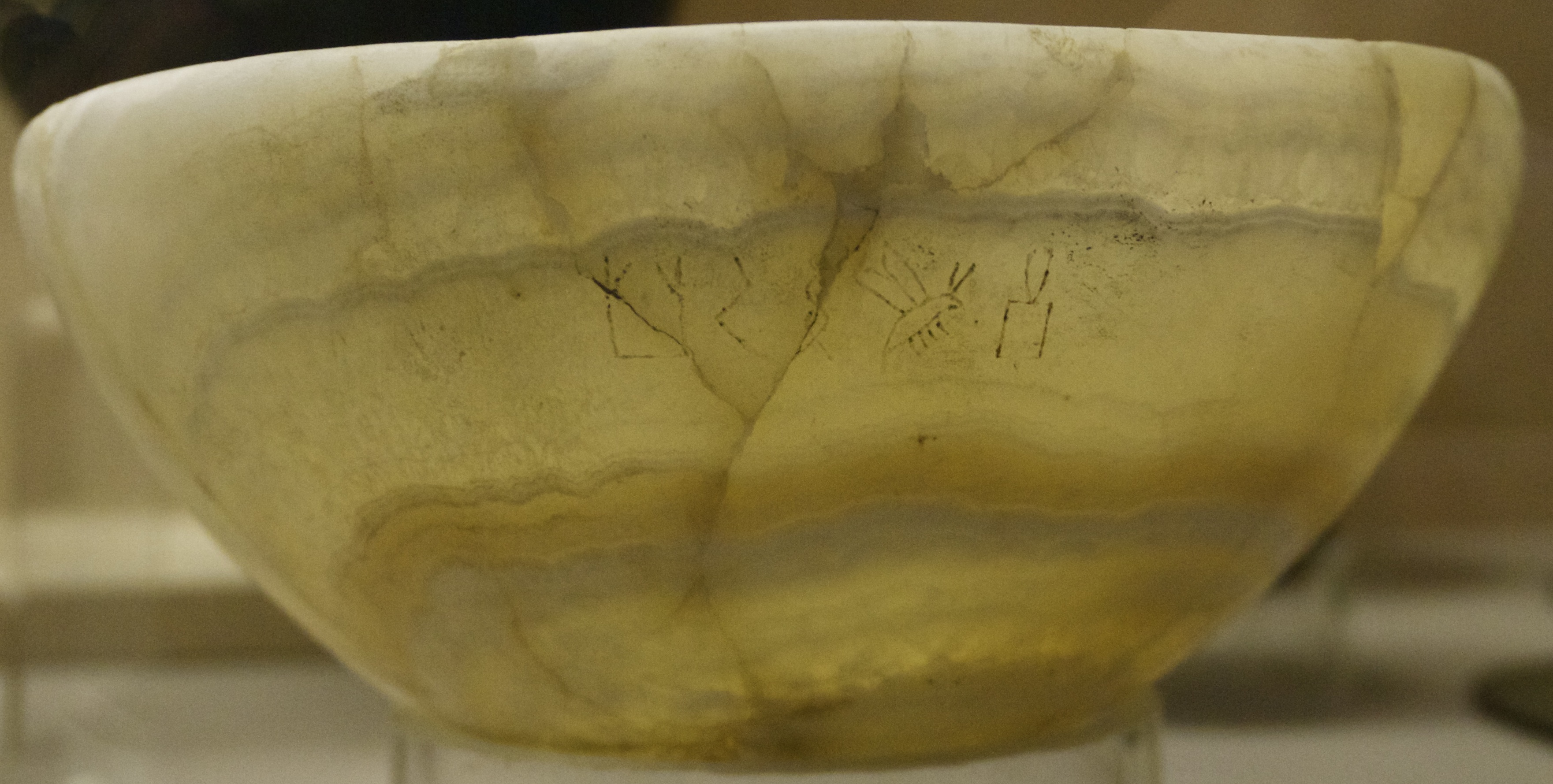 Alabaster vase of Hemaka, vizier of Lower Egypt under king Den. Musee des Antiquites Nationales, St Germain en Laye